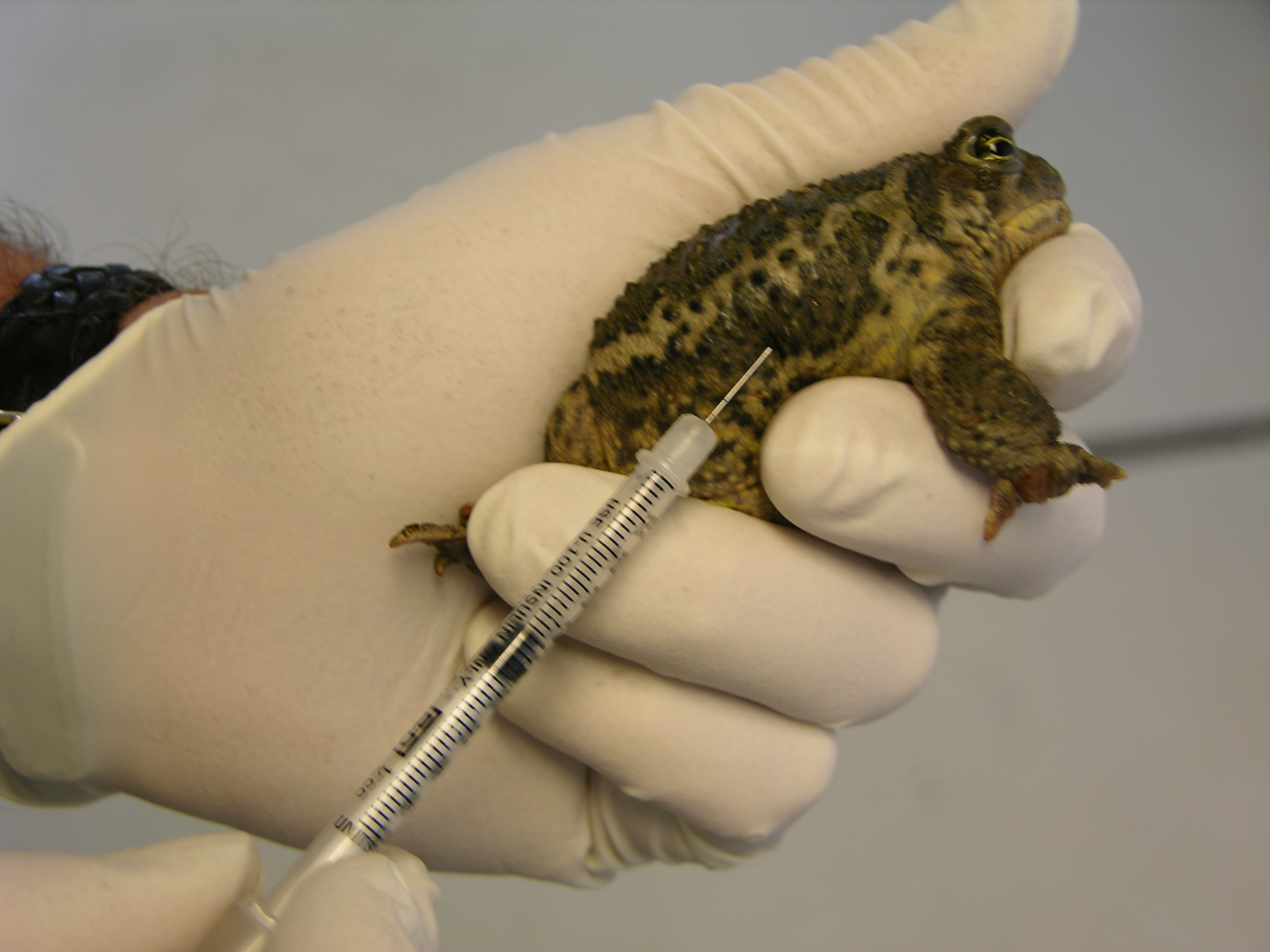 The toads are checked for various diseases, this helps maintain a healthy breeding population (within the hatchery). Credit: USFWS